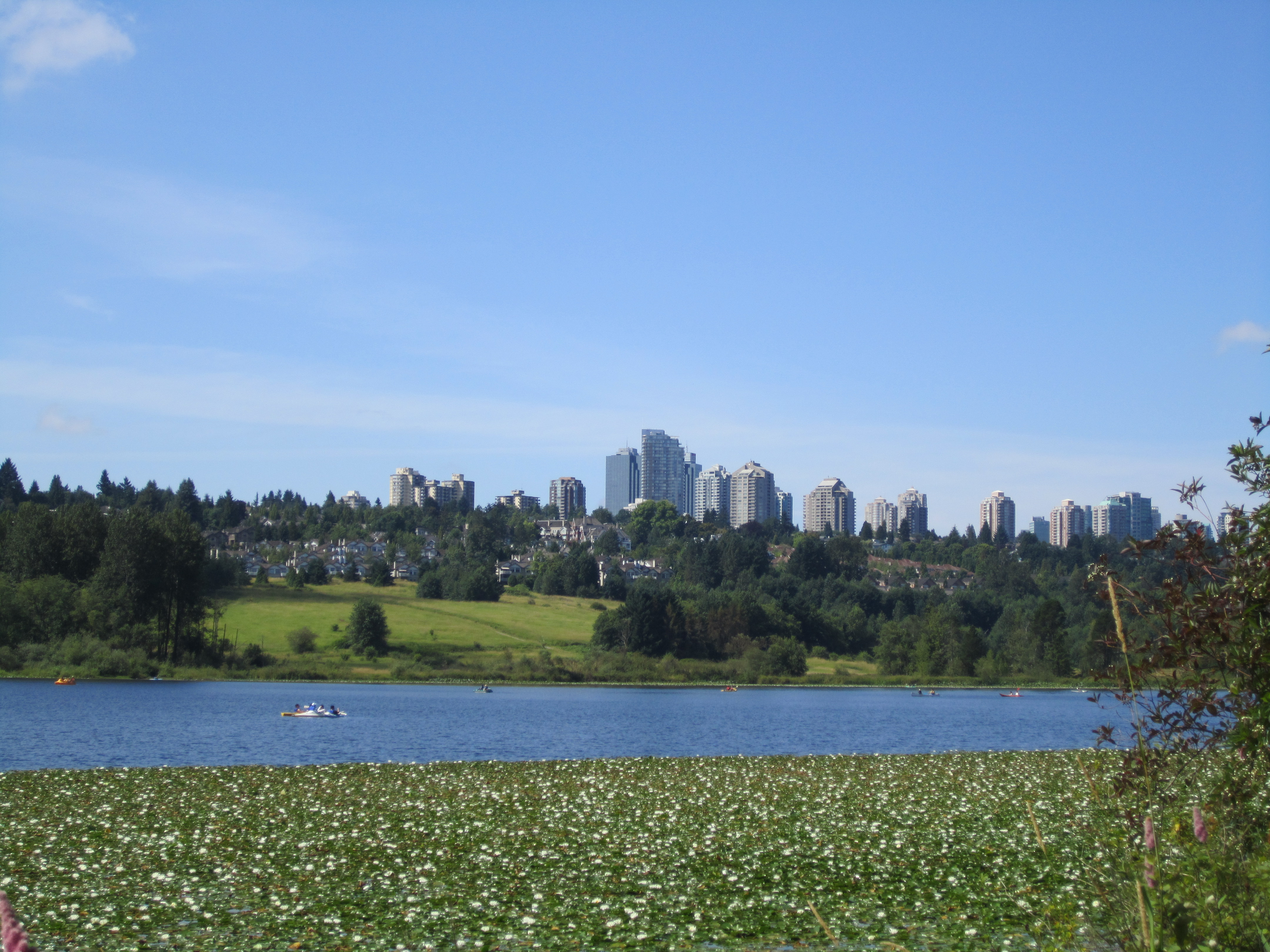 Taken summer 2011, this shot shows some of the more modern and luxurious accomodations in Burnaby, British Columbia